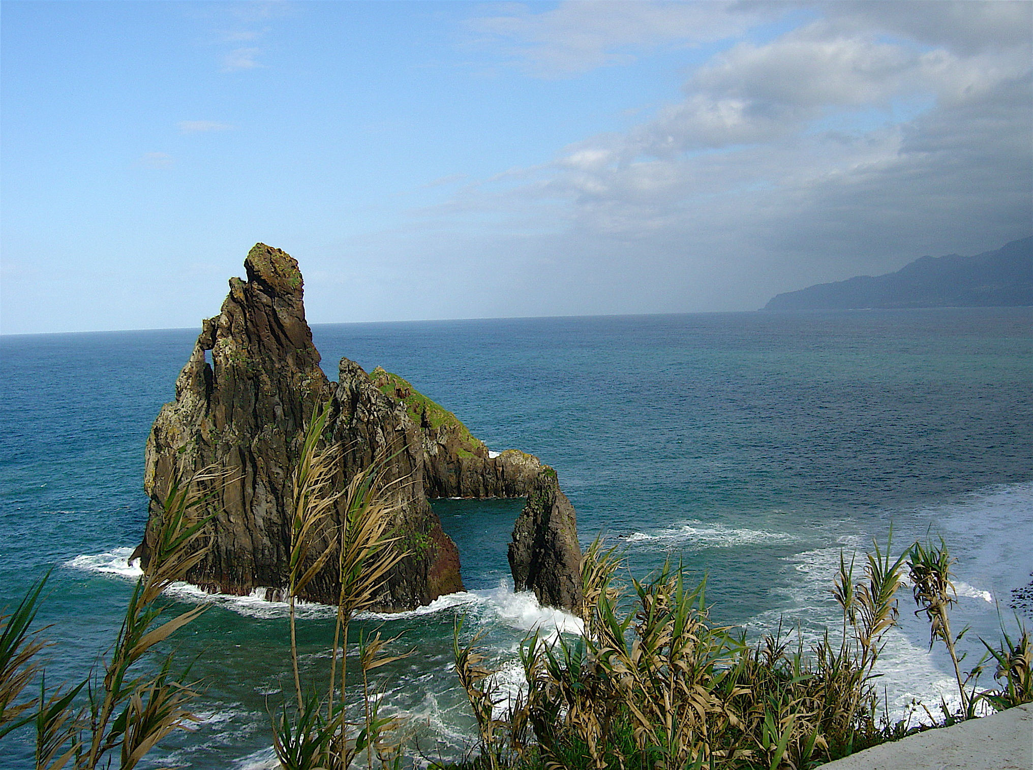 Two rock formations - Ilheus da Rib and Ilheeus da Janela on the north coast of Madeira island near of town Porto Moniz